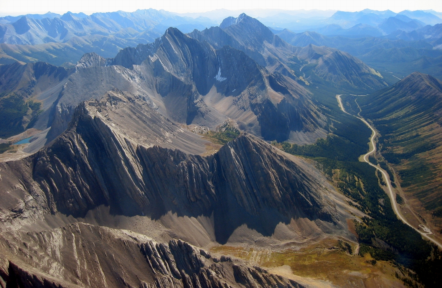 Ptarmigan cirque and the Highwood Pass parking lot on Hwy 40. Mount Arethusa (2912m/9554') and Little Arethusa are just behind (South of) the Ptarmigan cirque. Strom Mountain is next (3095m/10153') with [Mist Mountain] (3138m/10297m) at the far end of this group.